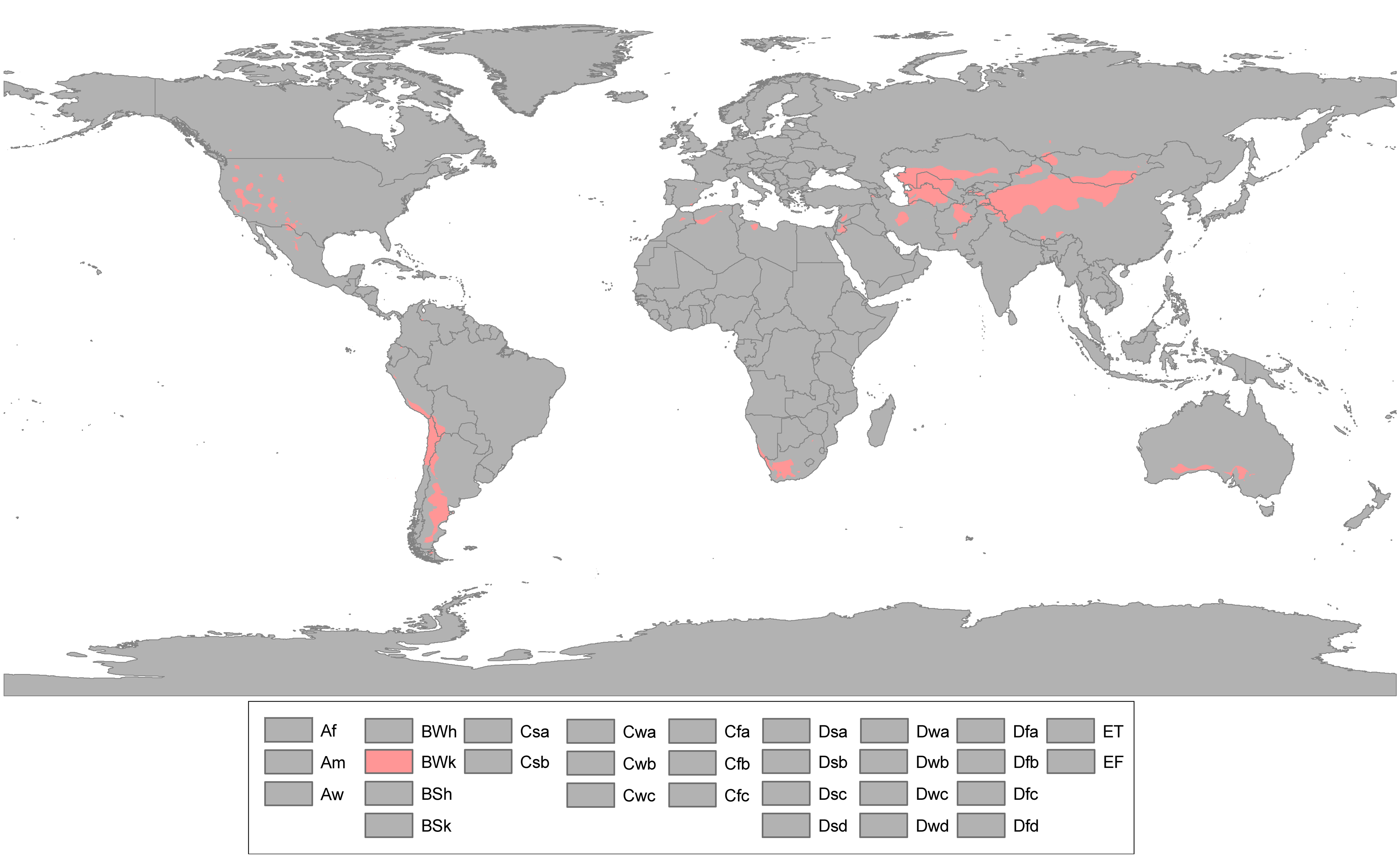 Updated world map of the Köppen-Geiger climate classification. Cold desert climate (BWk)